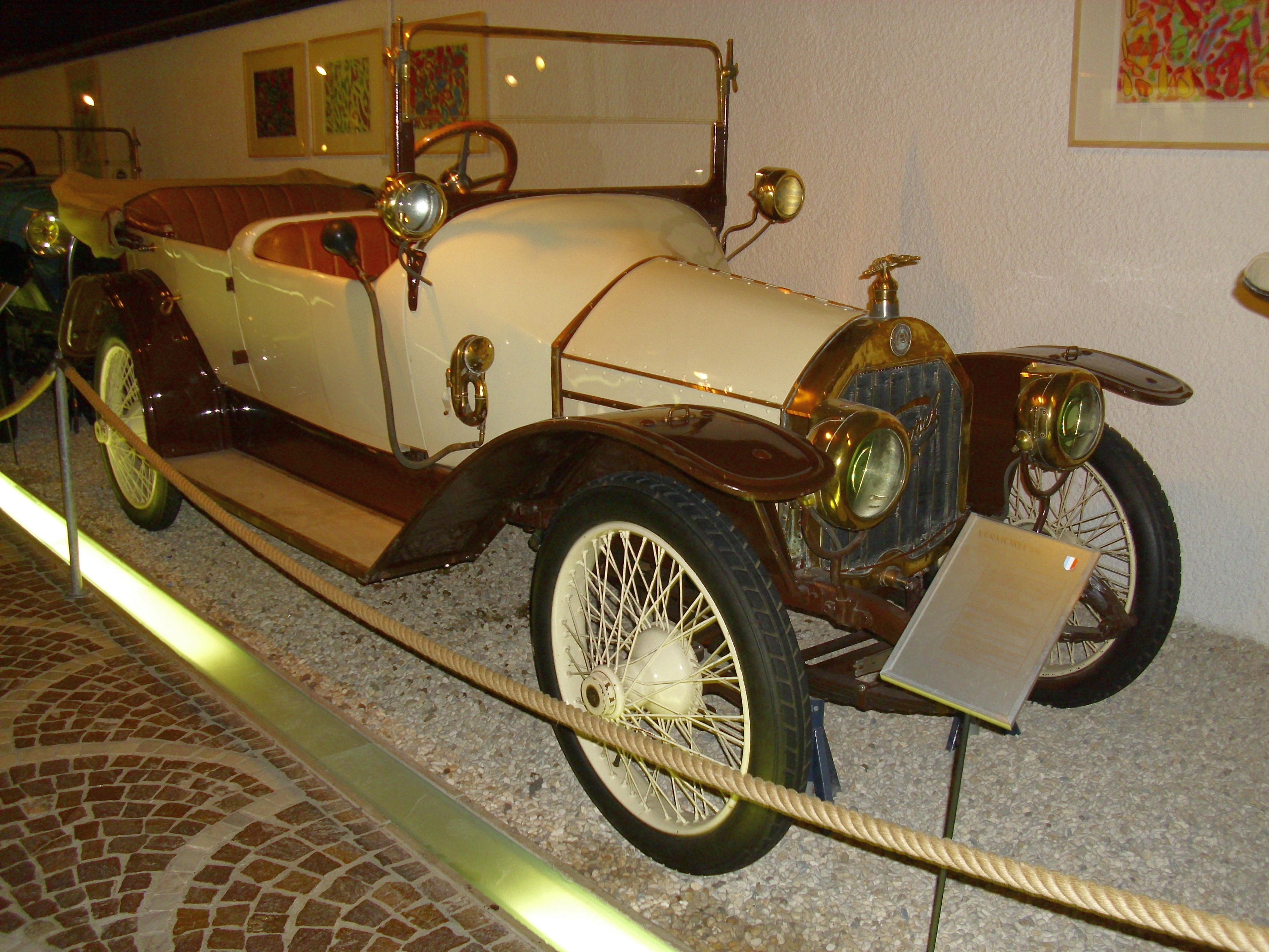 Vermorel 1914 (Country of origin: France)